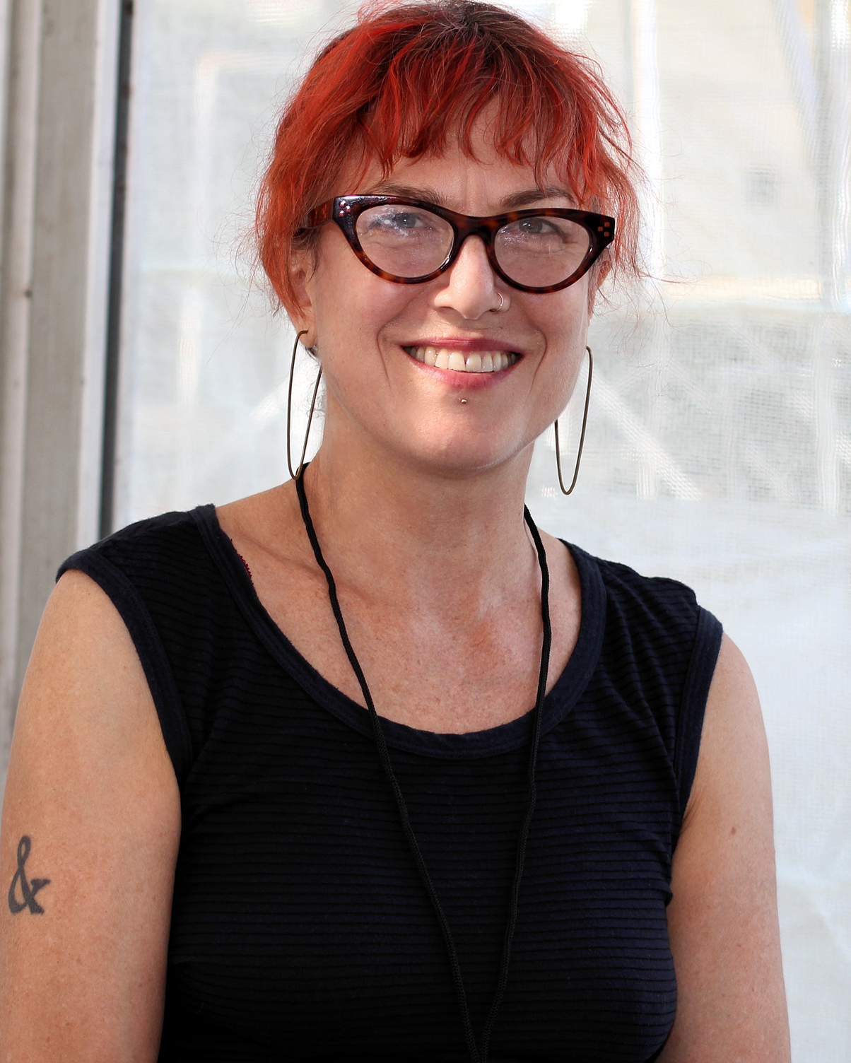 Author Shelley Jackson at the 2018 Texas Book Festival in Austin, Texas, United States.